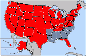 1928 elections in USa results by state